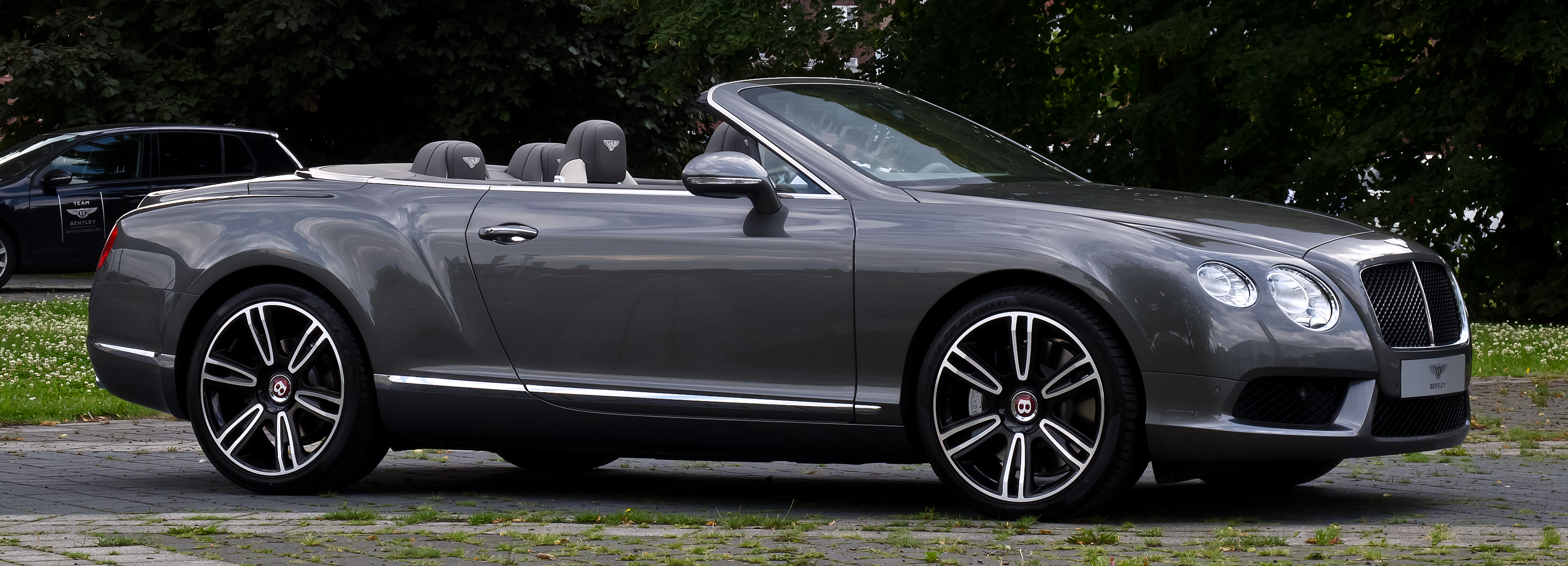 Bentley Continental GTC V8 (II)